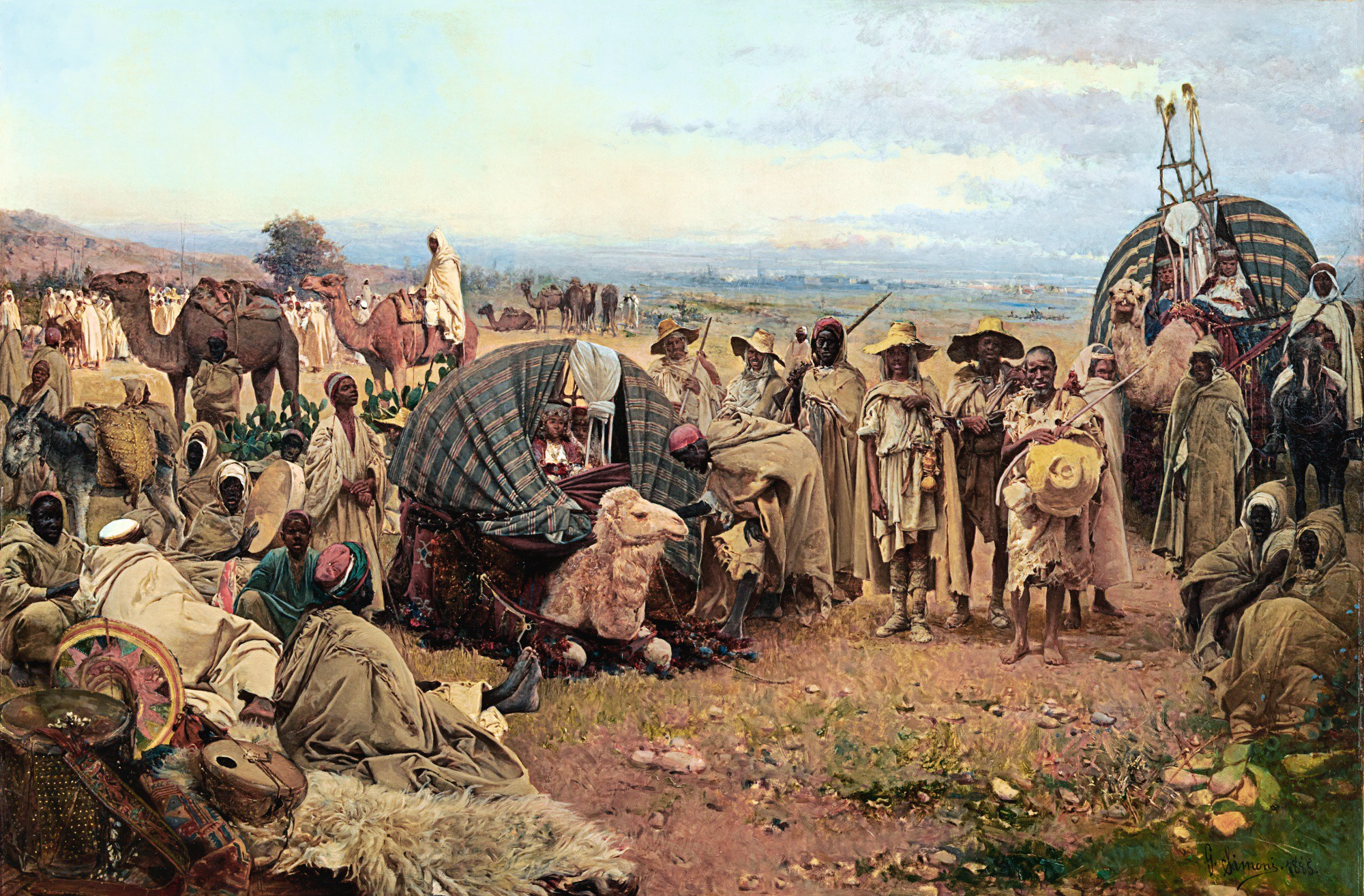 The Halt of the Caravan by Gustavo Simoni, 1885, oil on canvas, 61 by 90 cm., 24 by 35 in.